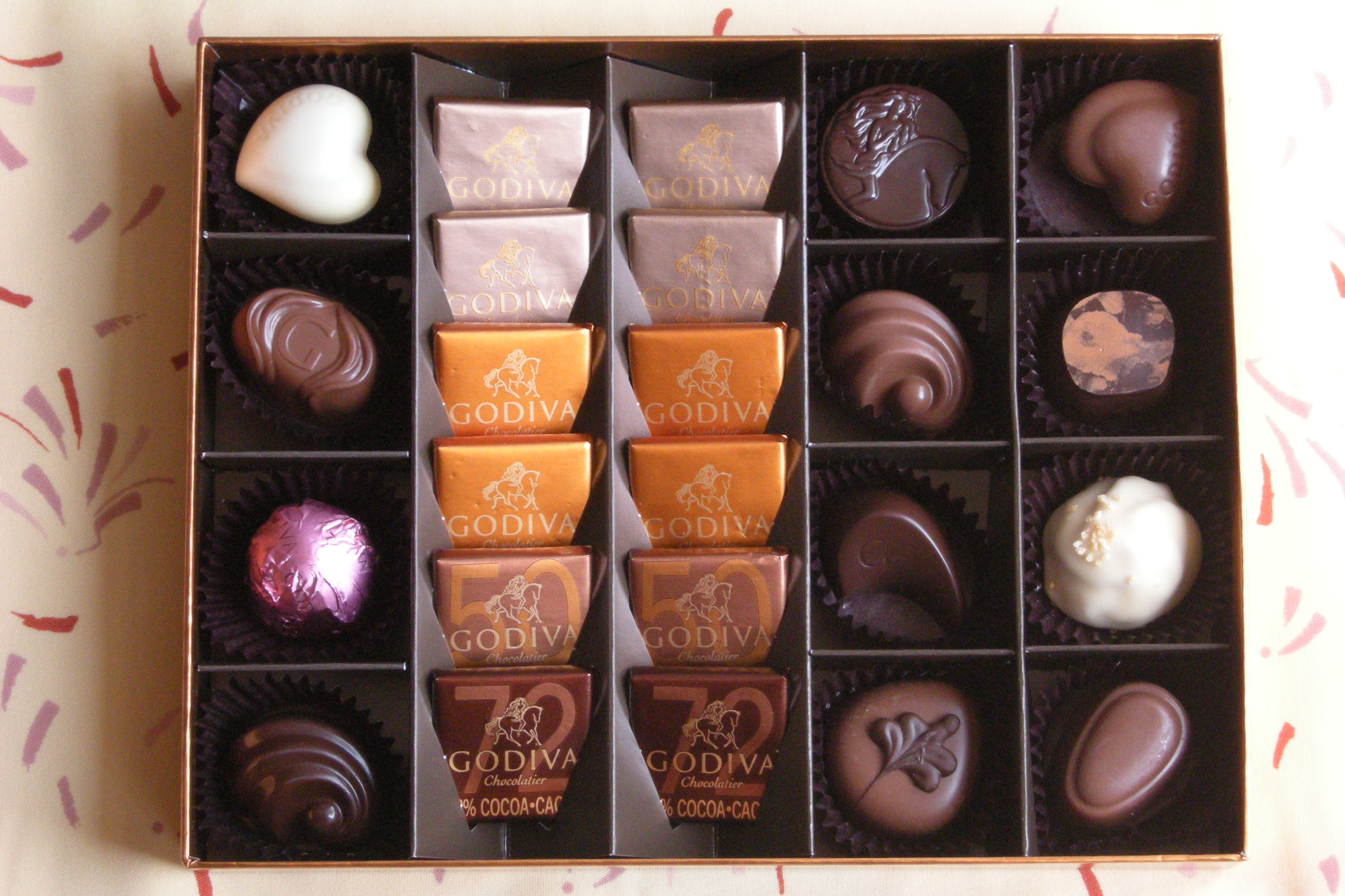 A GODIVA's chocolate gift set sold in Japan. It's 5250Yen.